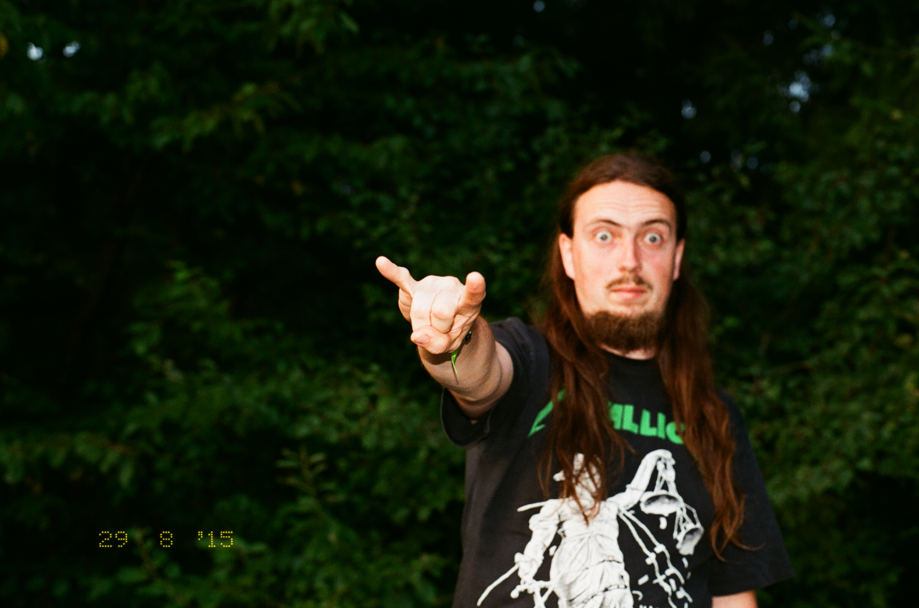 Heavy metal fan raise his fist and makes the "devil horns" gesture at a music festival in Terchová, Slovakia in 2015